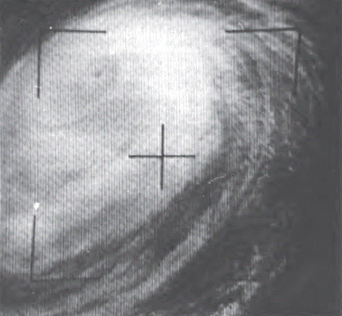 This TIROS weather satellite image of Typhoon Karen was taken on November 14, 1962